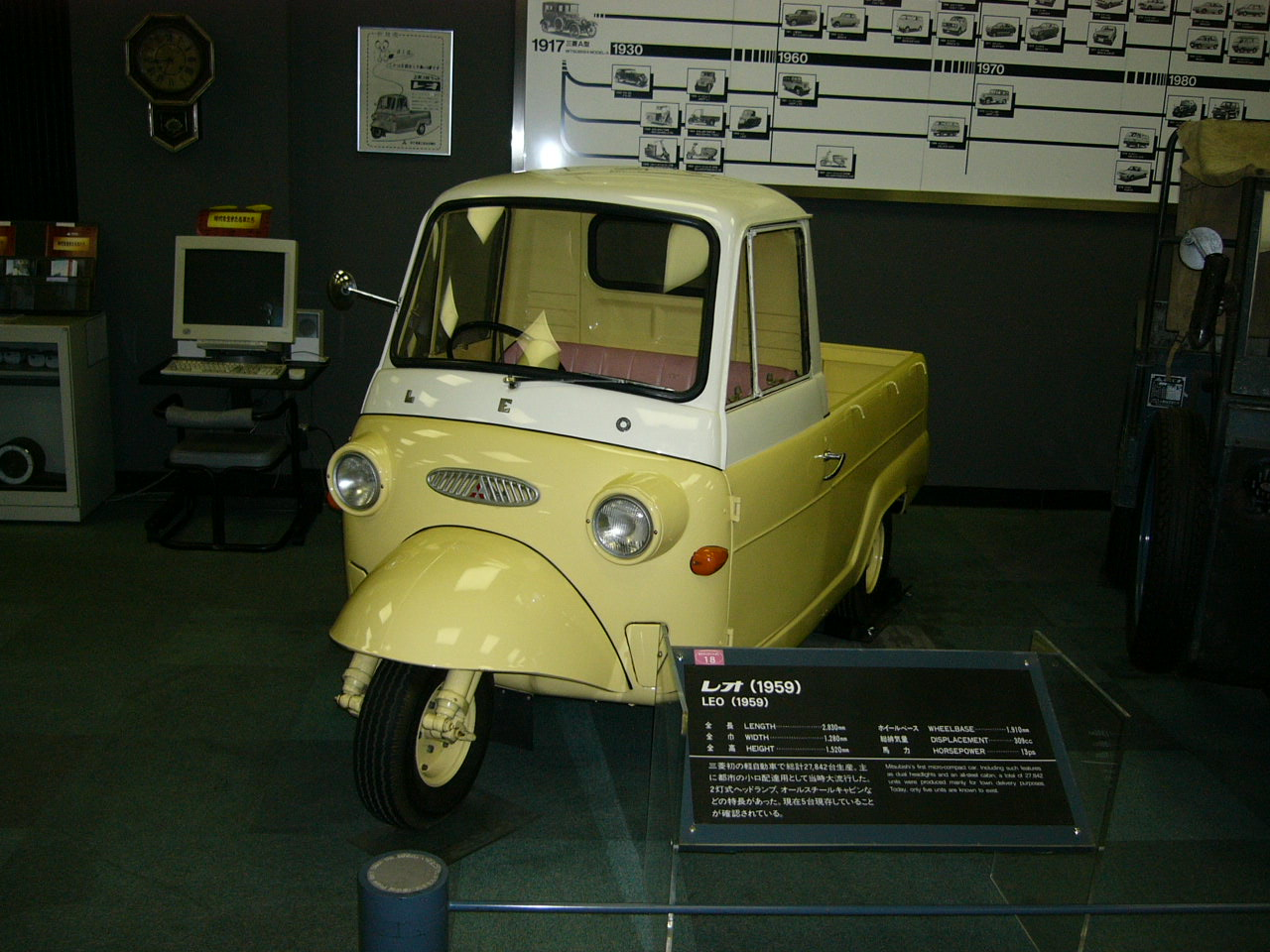 It takes a picture of Mitsubishi LEO LT10(1959) of Aichi Prefecture Okazai City and a Mitsubishi Auto Gallery.